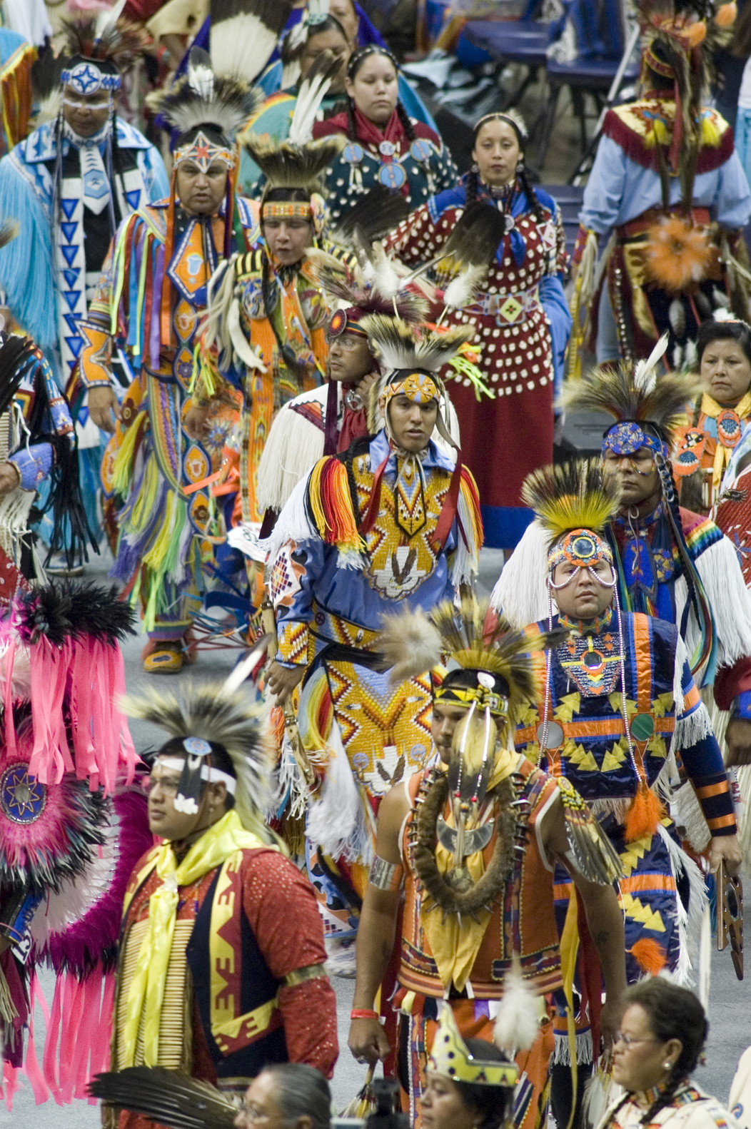 Grand Entry at the 2005 National Pow Wow.